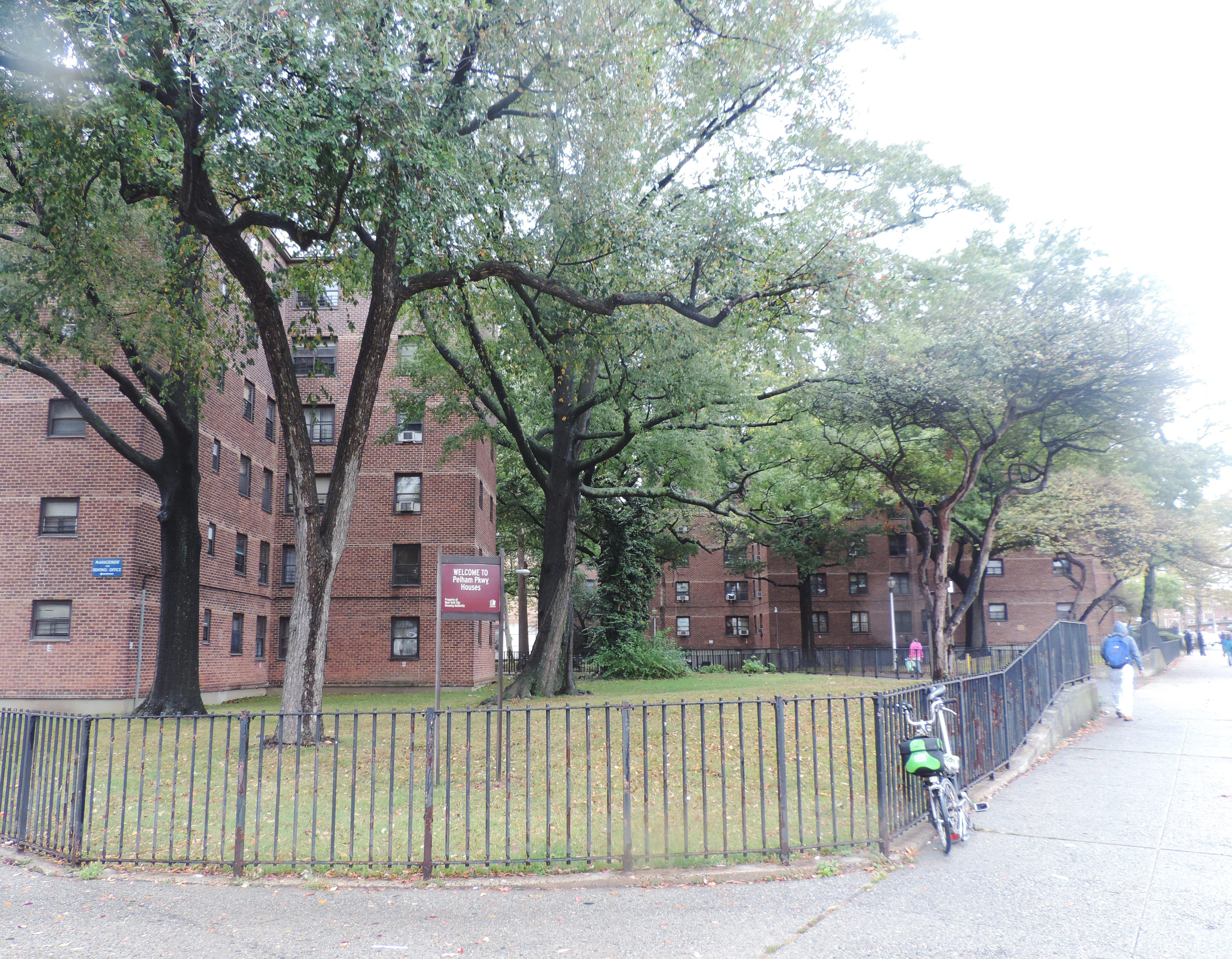 NYCHA project on a cloudy day.